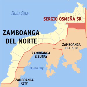 Map of the Zamboanga del Norte showing the location of Sergio Osmena Sr.